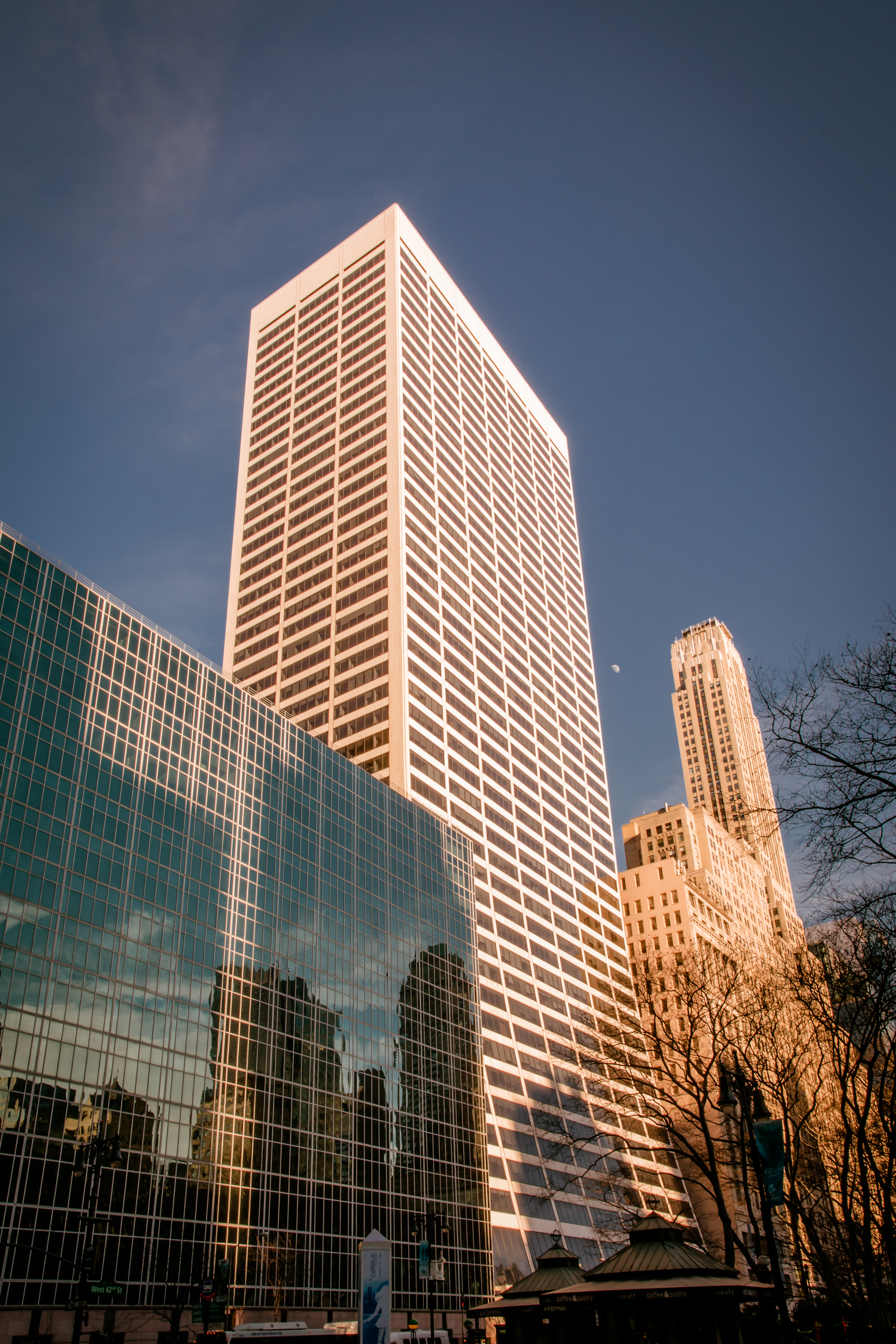 W. R. Grace Building, New York, NY 10018, USA - Jan 2013